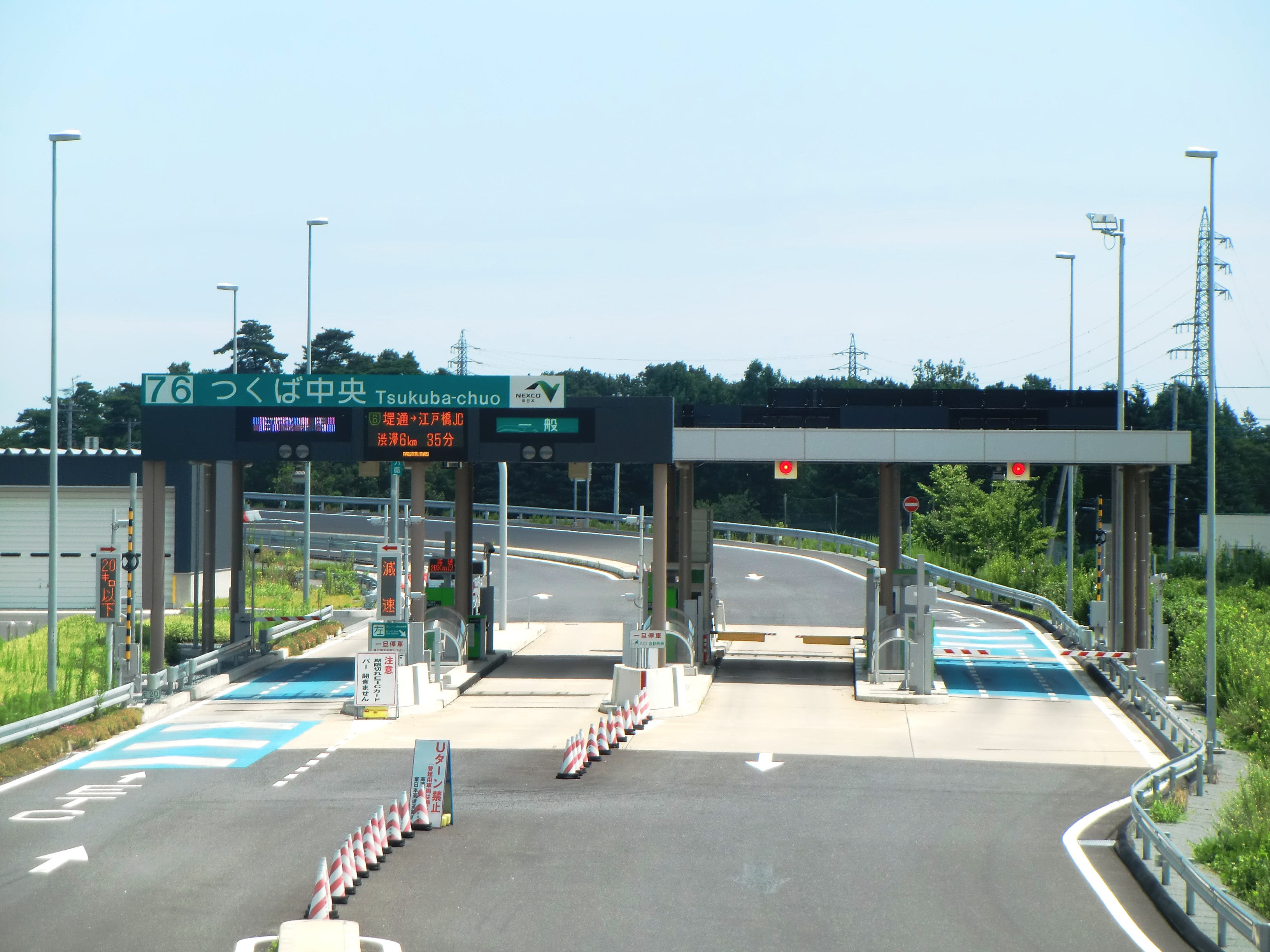 Ken-Ō Expressway Tsukuba-chuō interchange toll gate in Tsukuba city, Ibaraki prefecture, Japan.